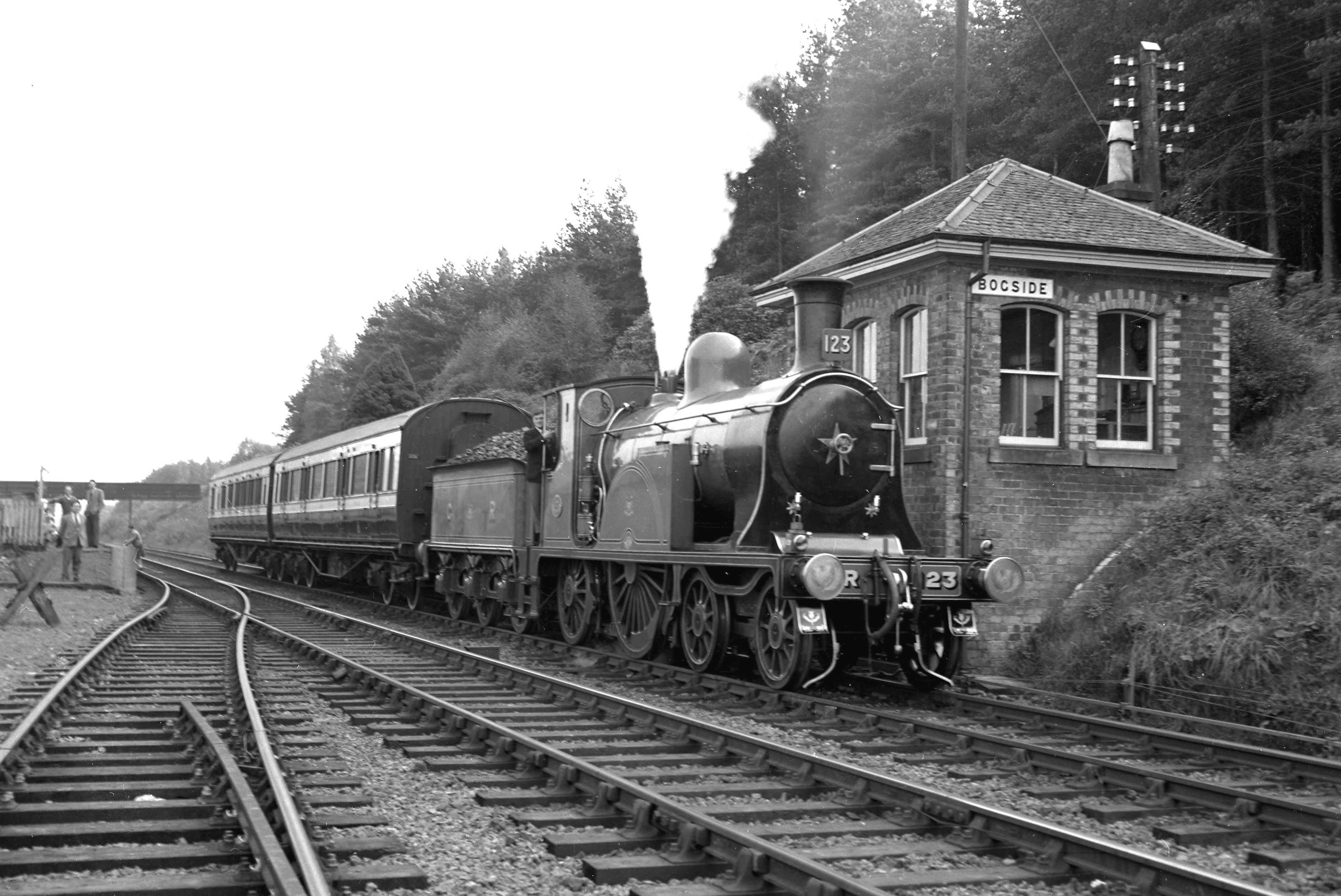 Steam train passes Bogside signal box in 1959. Bogside is in central Scotland